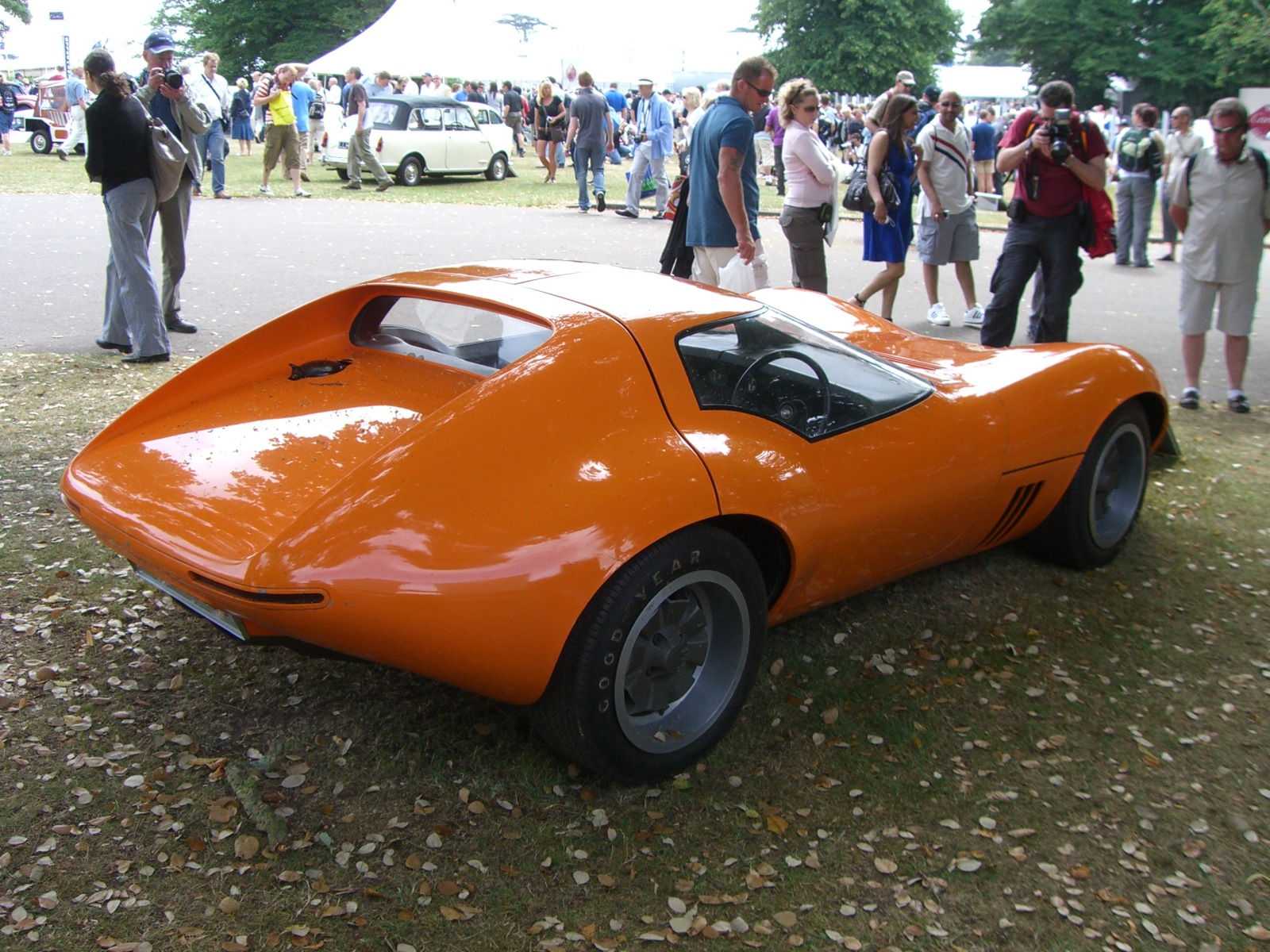 Designed by Wayne Cherry. Engine from a VX 4/90